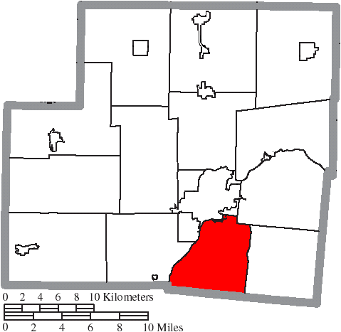 Map of the municipal and township boundaries of Shelby County, Ohio, United States, as of the 2000 census, with the location of Orange Township highlighted. Township borders are shown only in unincorporated areas in order to differentiate incorporated and unincorporated areas more clearly.